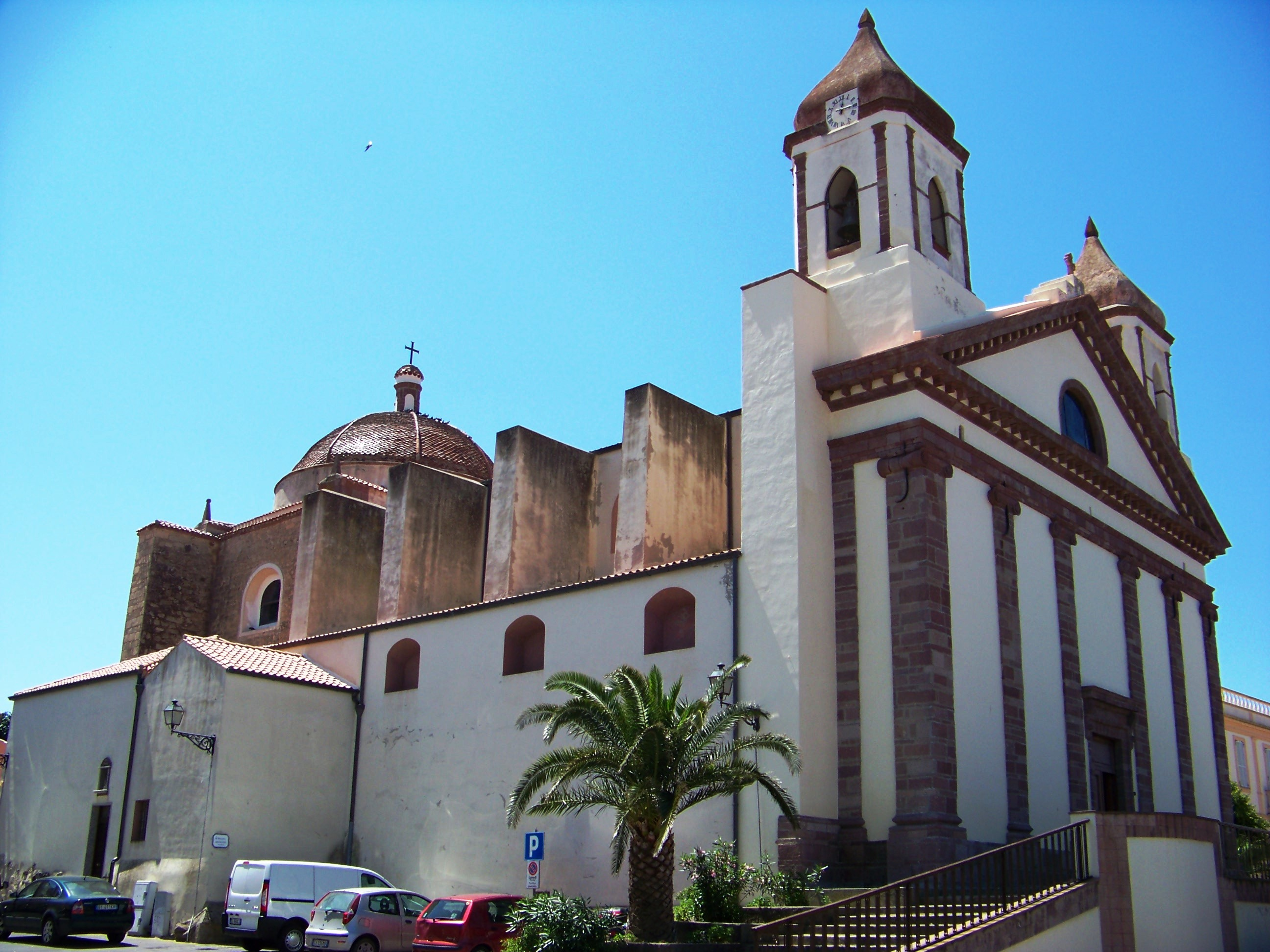 Tresnuraghes (OR) - Parish Church of St. George